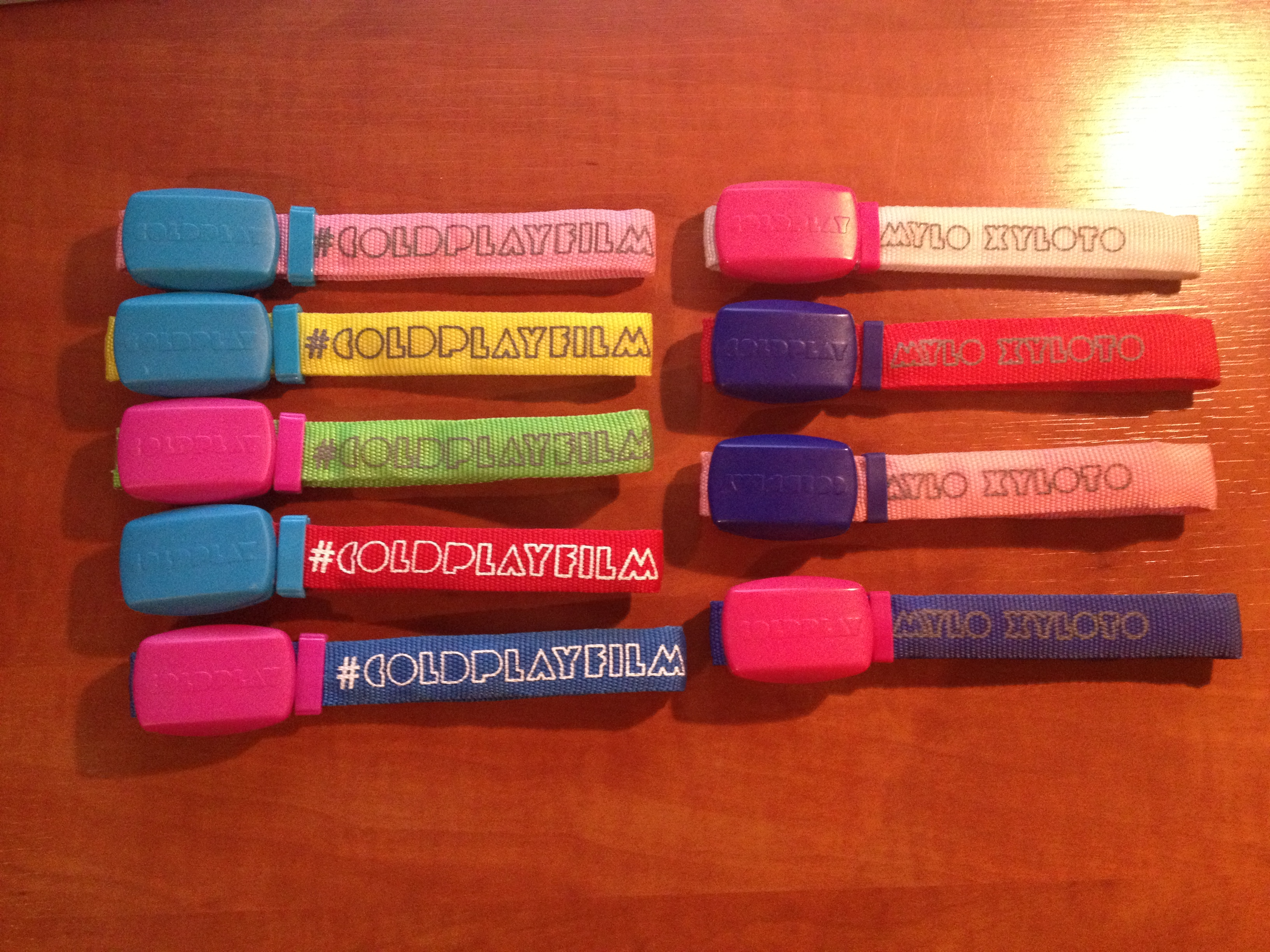 Xylobands as used at the Mylo Xyloto tour from the British band Coldplay.